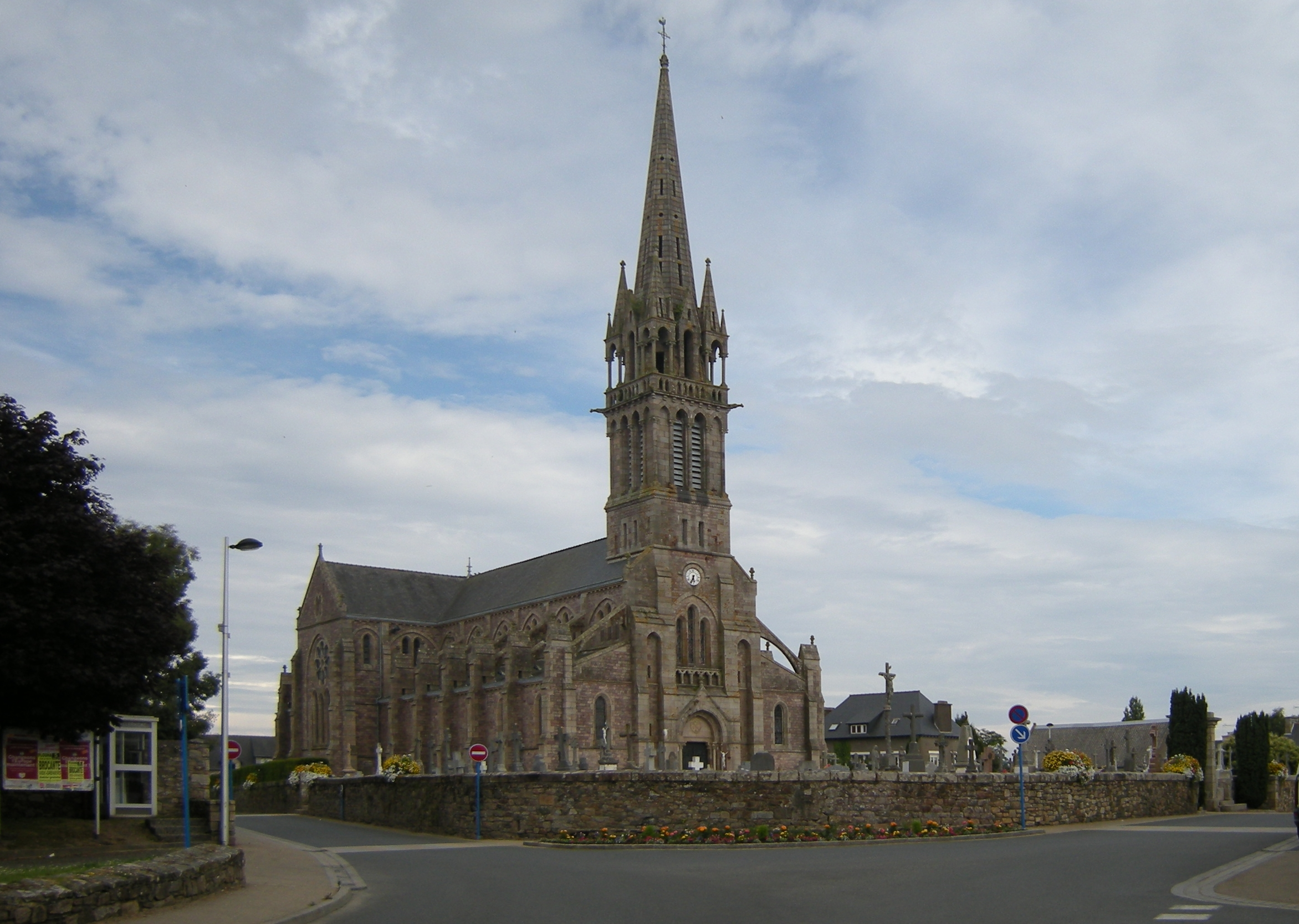 Church of Plounez, Paimpol, Côtes-d'Armor, Bretagne, France